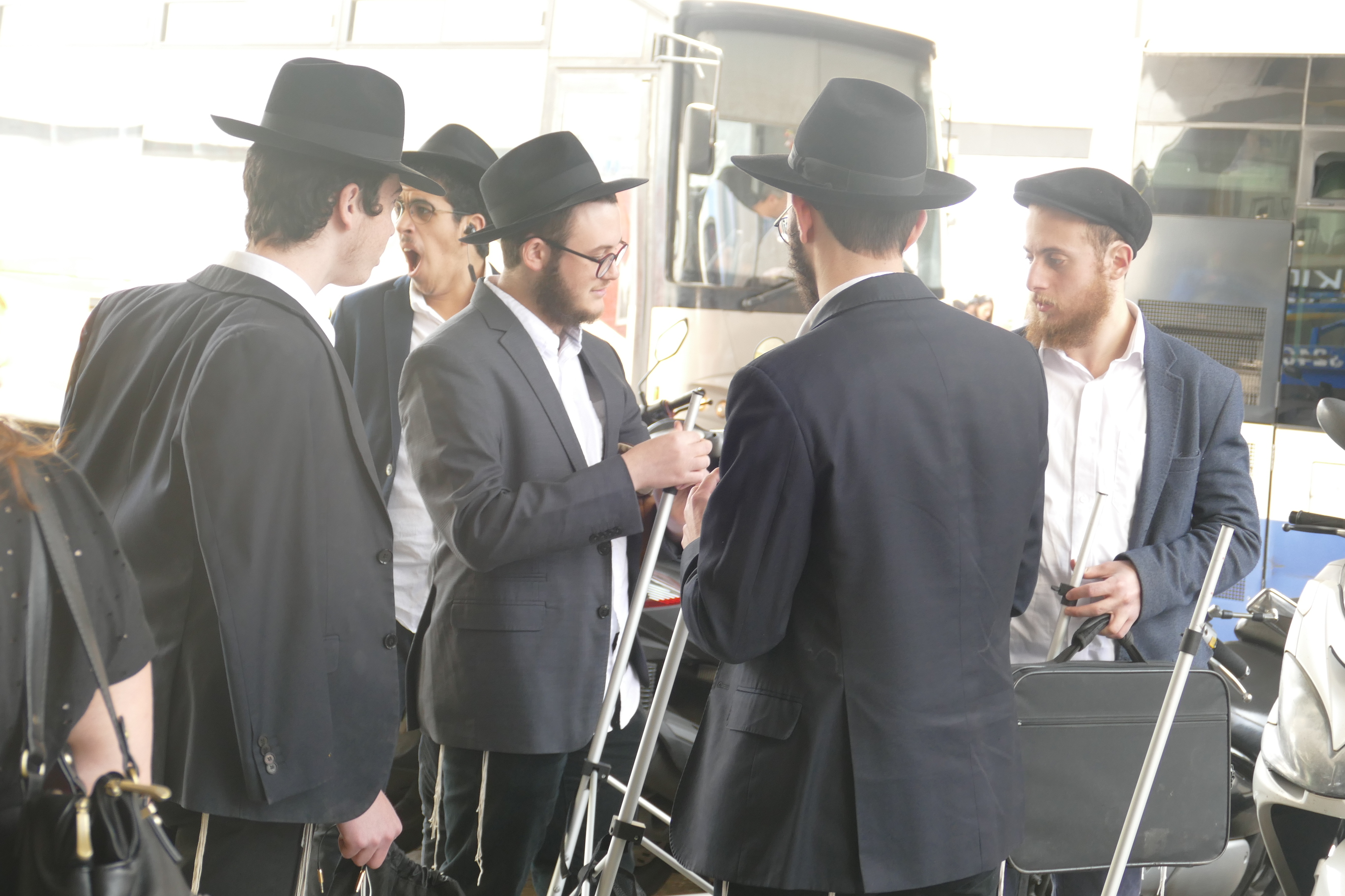 Dizengoff Square